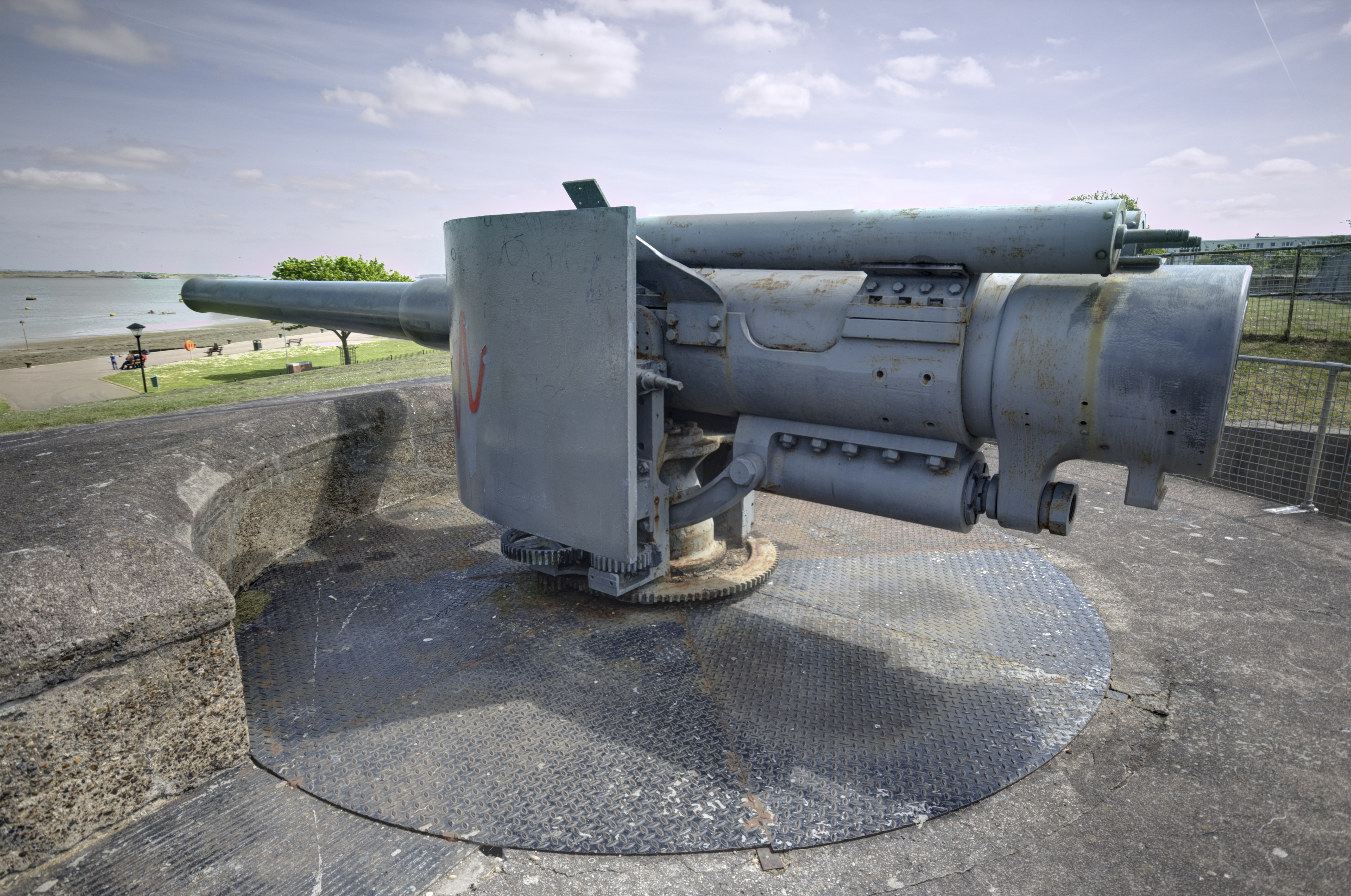 1904 6 inch breech loader coastal gun, New Tavern Fort